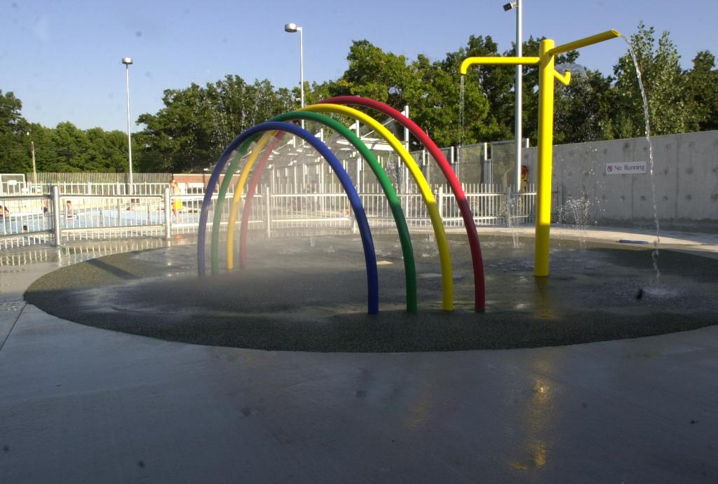 Urban beach splash pad within the municipal swimming baths at High Park, Toronto To protect the privacy of bathers, the facility is shown here in an unused state, though often it's full of people. There is a crumb rubber coating on the concrete. I captured this image using a modified Nikon D1, together with a wearable computer system. I license the use of this image, for use in Wikipedia.